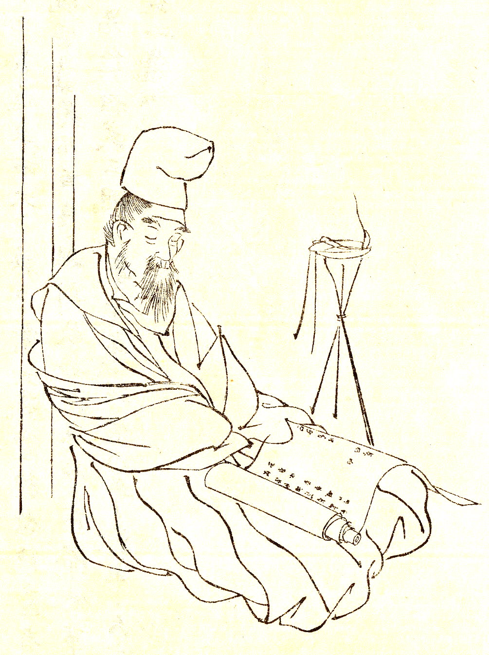 Sugawara no Furuhito(菅原古人) was a Japanese court noble and scholar in Nara period.